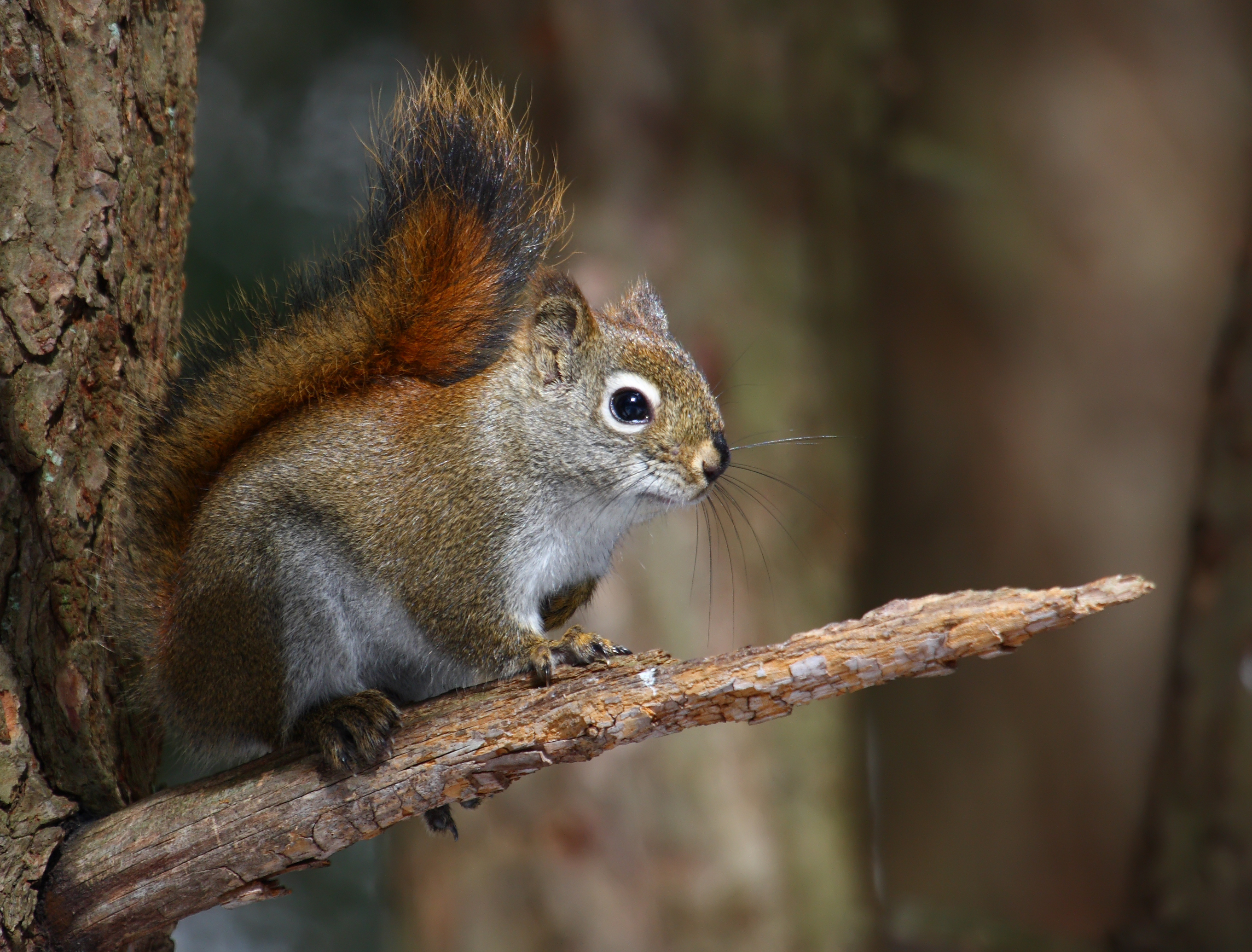 American Red Squirrel (Tamiasciurus hudsonicus), Cap Tourmente National Wildlife Area, Quebec, Canada